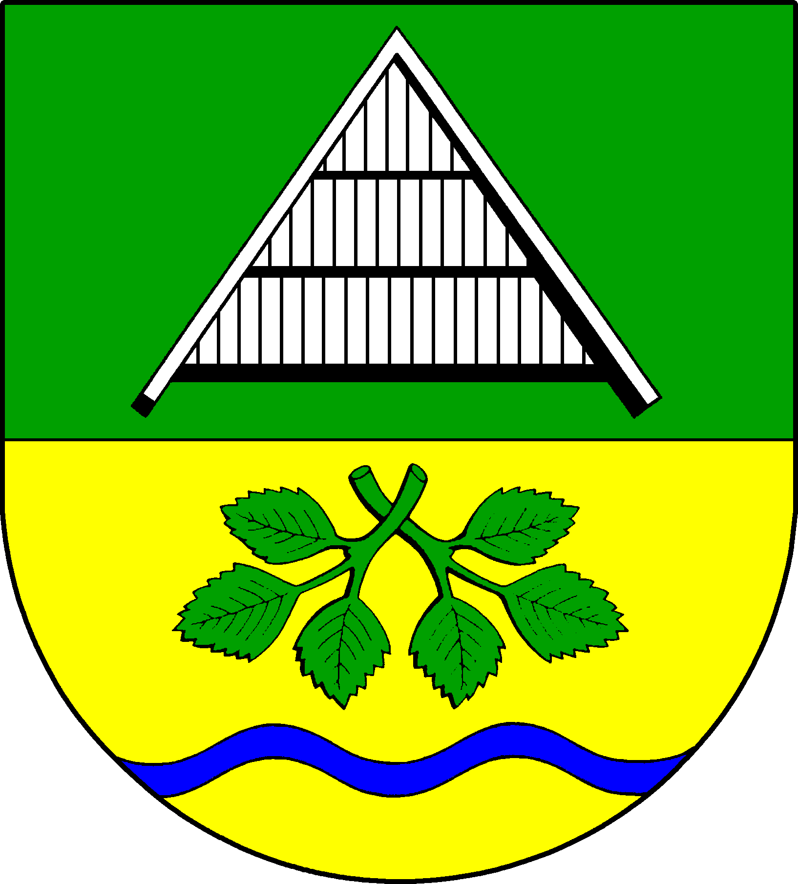 Coat of arms of the municipality Böhnhusen in Schleswig-Holstein, Germany.